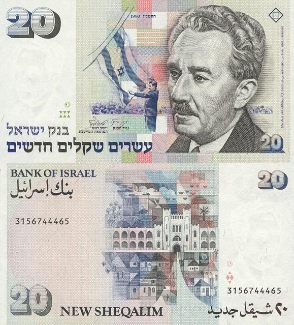 Obverse & Reverse side of a 20 new sheqalim bill, paper.